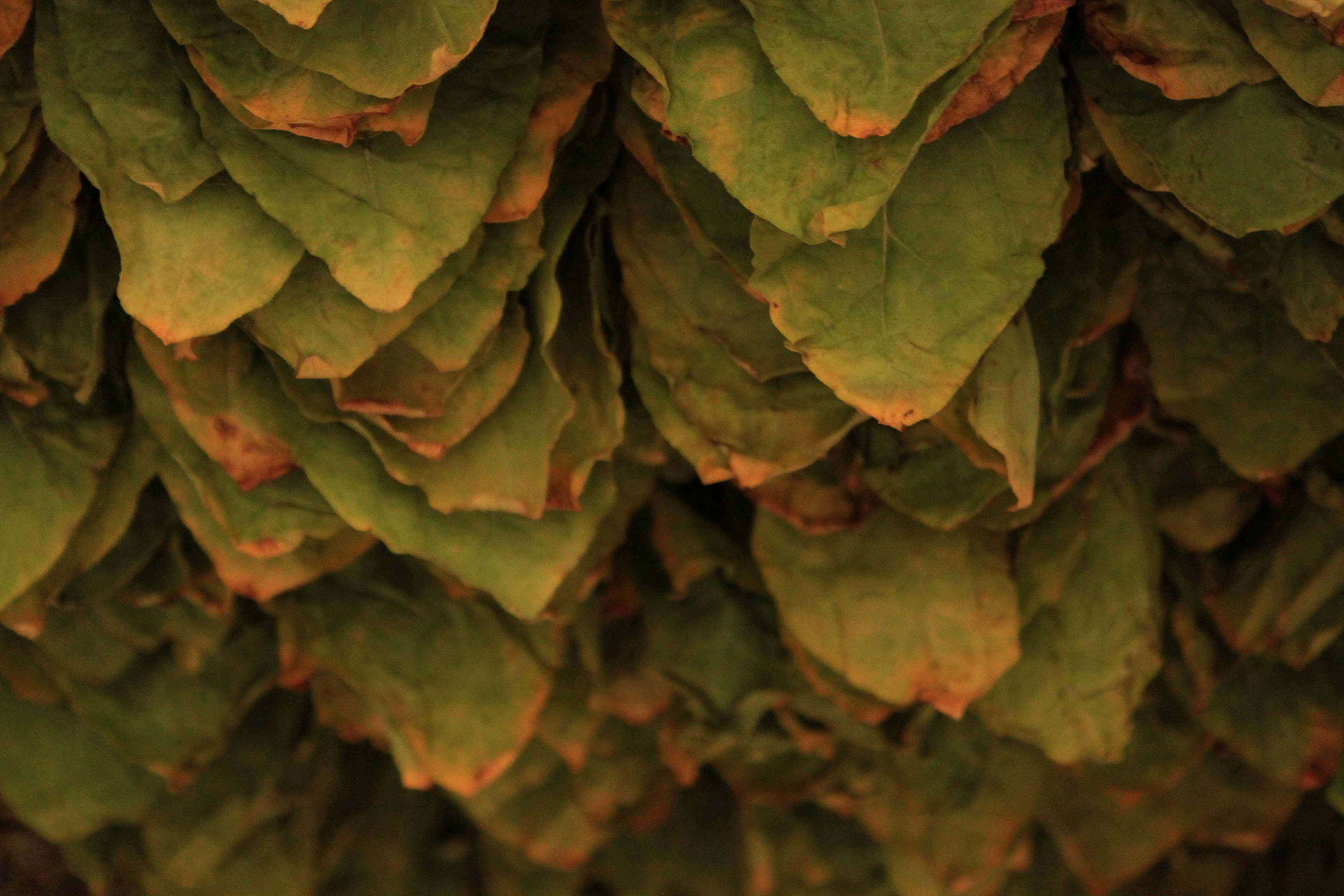 Tobaco in Prilep.